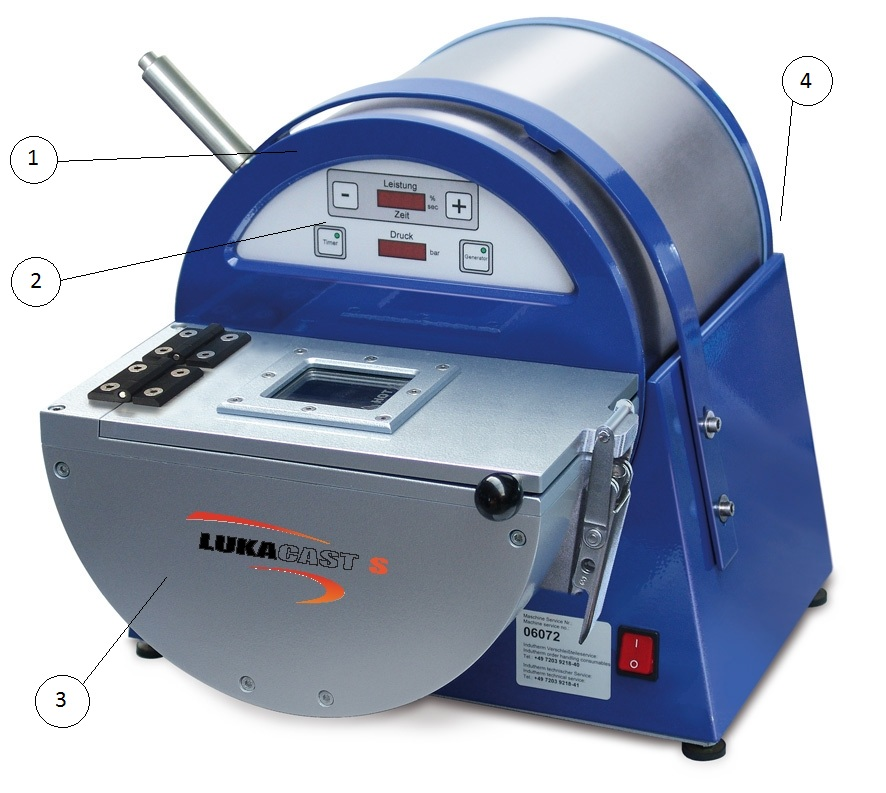 Vacuum Casting Machine